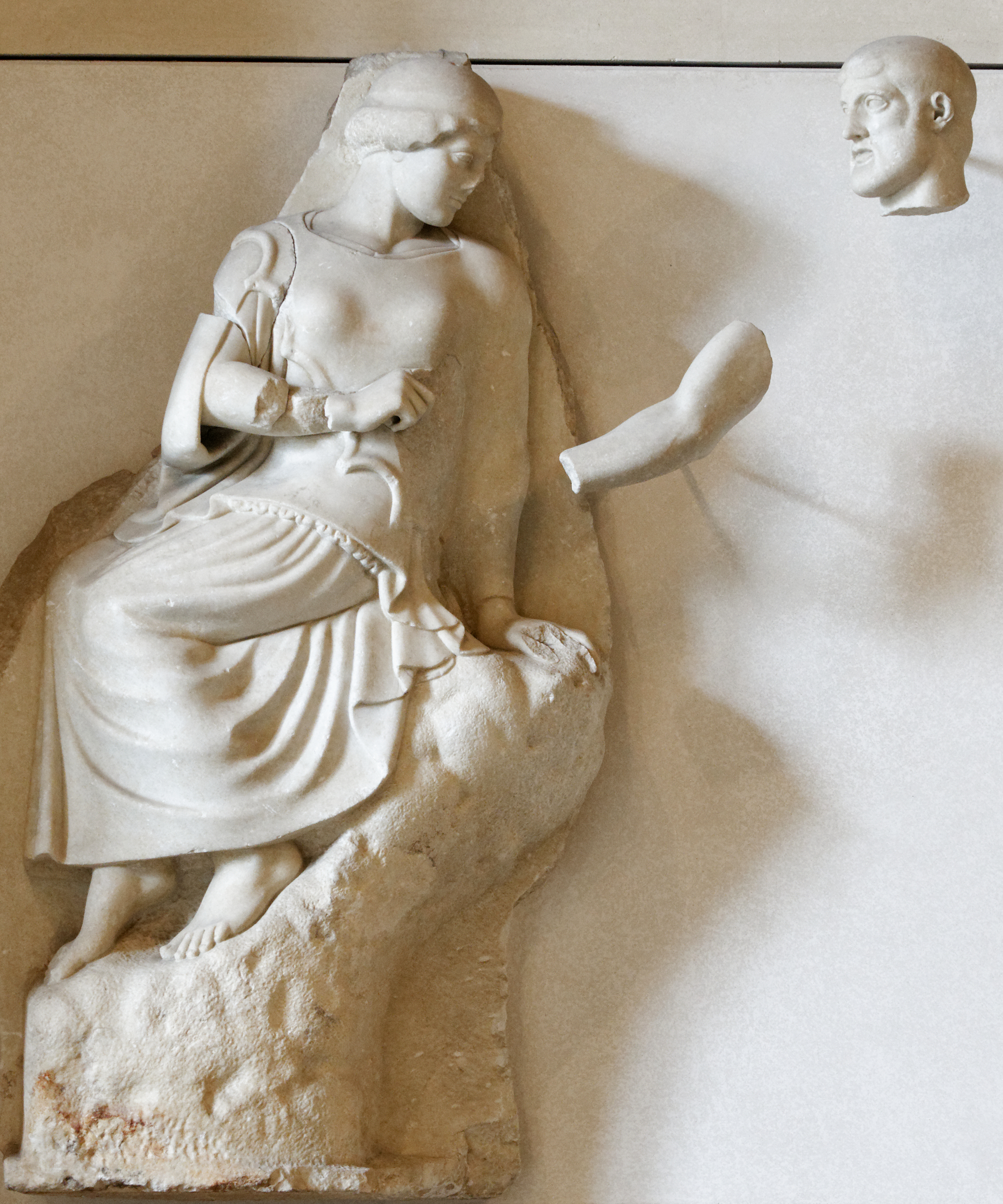 Heracles and the monster birds at the lake Stymphalos: third metope over the West porch, temple of Zeus at Olympia. Parian marble, ca 460 BC.